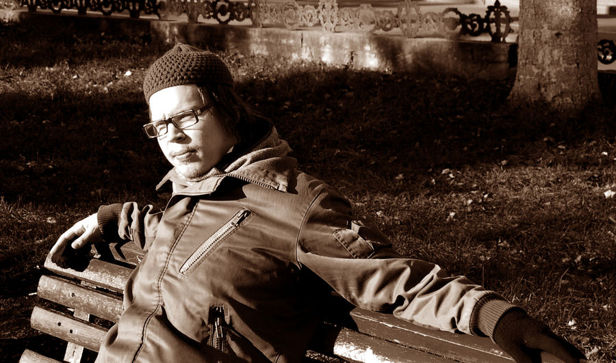 Poet Ville Hytönen.